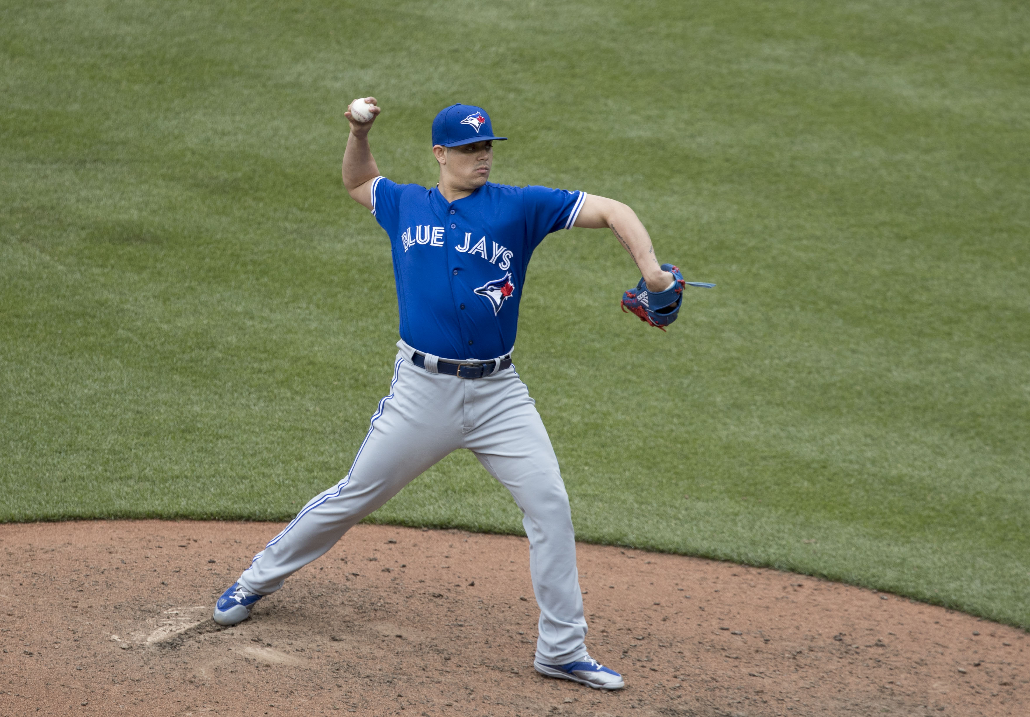 Roberto Osuna pitching against the Baltimore Orioles on May 21, 2017